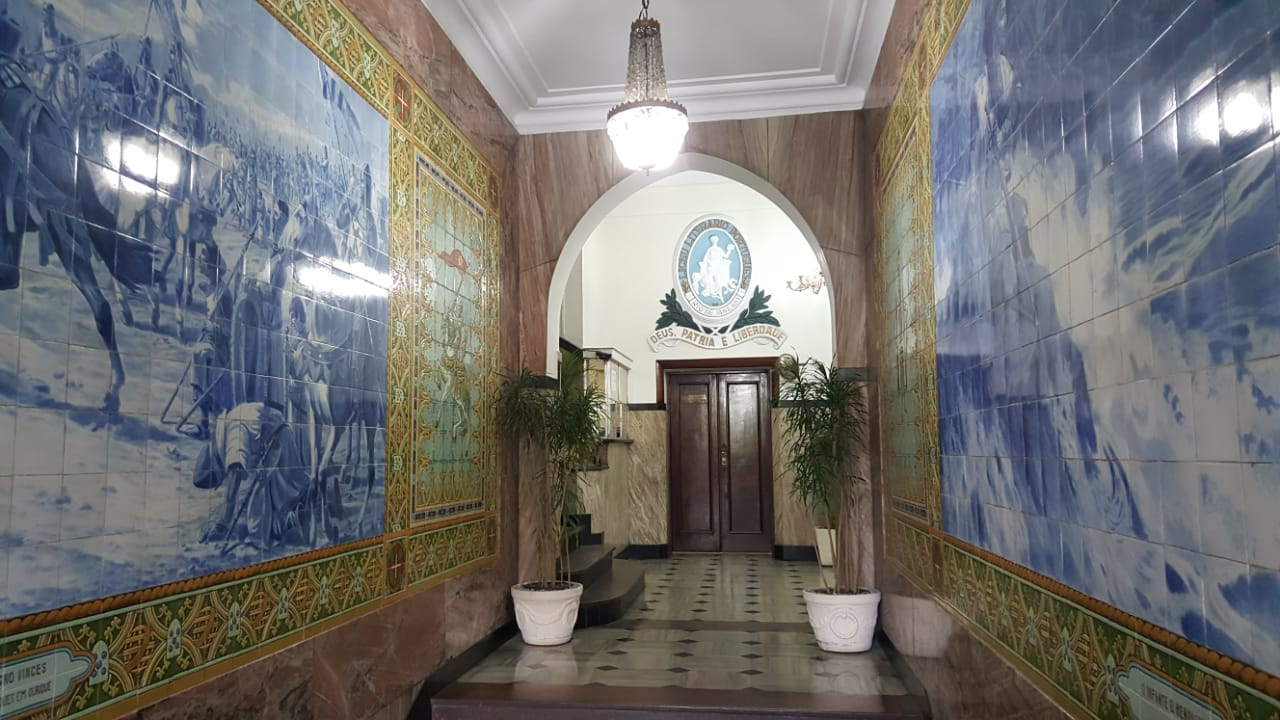 Entrance hall of the Liceu Literário Português